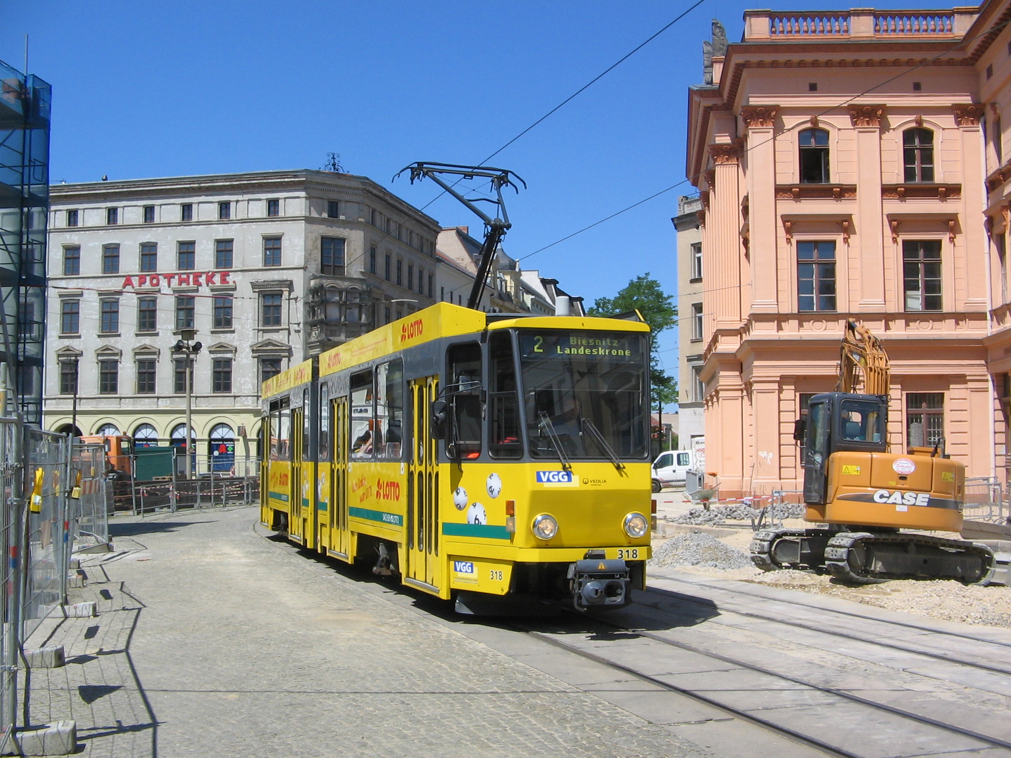 Streetcar No. 318 by Kaisertrutz.